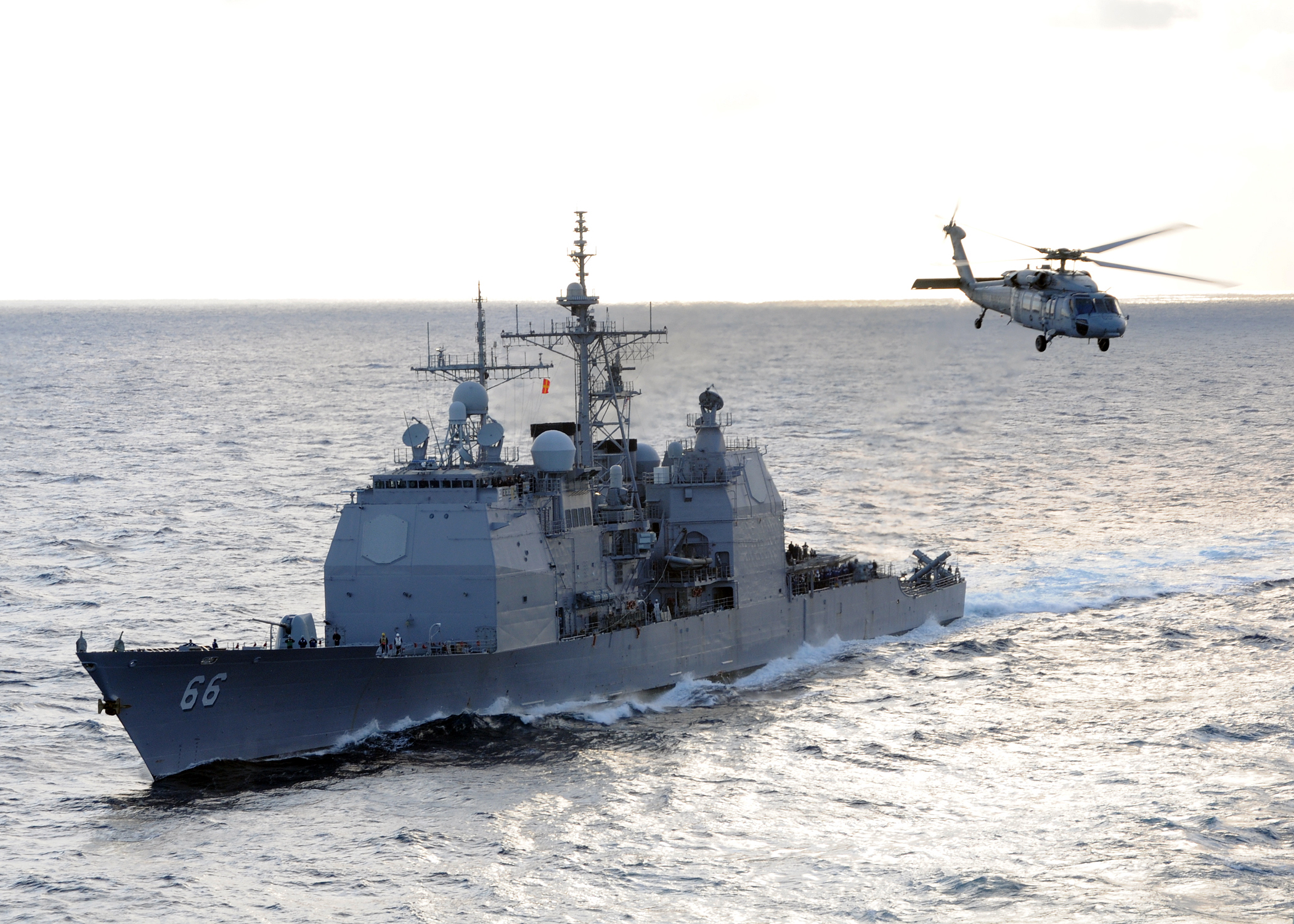 MEDITERRANEAN SEA (Jan. 19, 2010) The guided-missile cruiser USS Hue City (CG 66) prepares for a replenishment at sea while an MH-60S Sea Hawk helicopter assigned to the Chargers of Helicopter Sea Combat Squadron (HSC) 26 performs a vertical replenishment between the Military Sealift Command fast combat support ship USNS Supply (T-AOE 6) and the Nimitz-class aircraft carrier USS Dwight D. Eisenhower (CVN 69). Dwight D. Eisenhower is deployed supporting maritime security operations in the U.S. 5th and 6th Fleet areas of responsibility. (U.S. Navy photo by Mass Communication Specialist 3rd Class Chad R. Erdmann/Released)